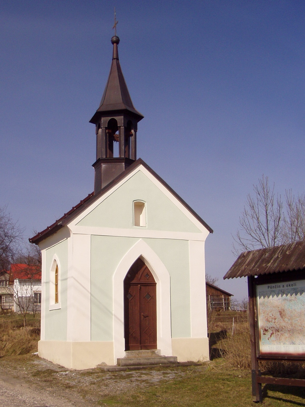 Chapel in Kamení Česky: Kaple v osadě Kamení, zrekonstruovaná v roce 2005